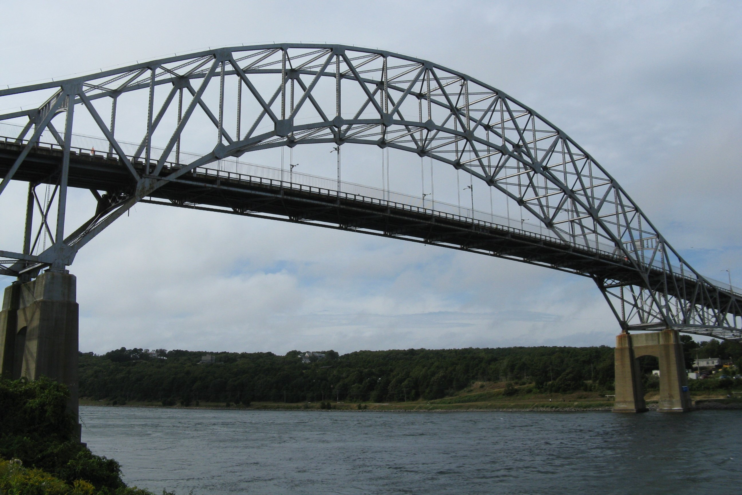 Sagamore Bridge, Sagamore Massachusetts, September 2009